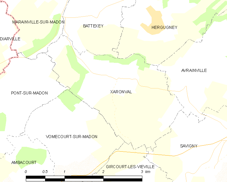 Map of French municipality Xaronval